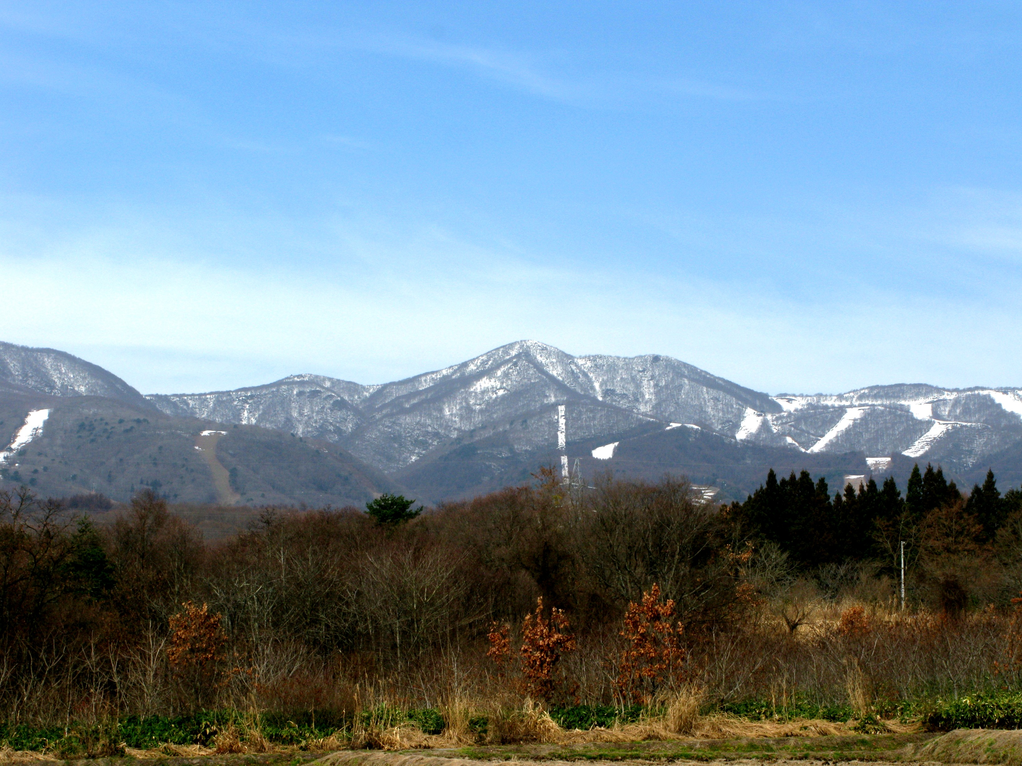 Mt. Nekomadake,Fukushima pref.,Japan